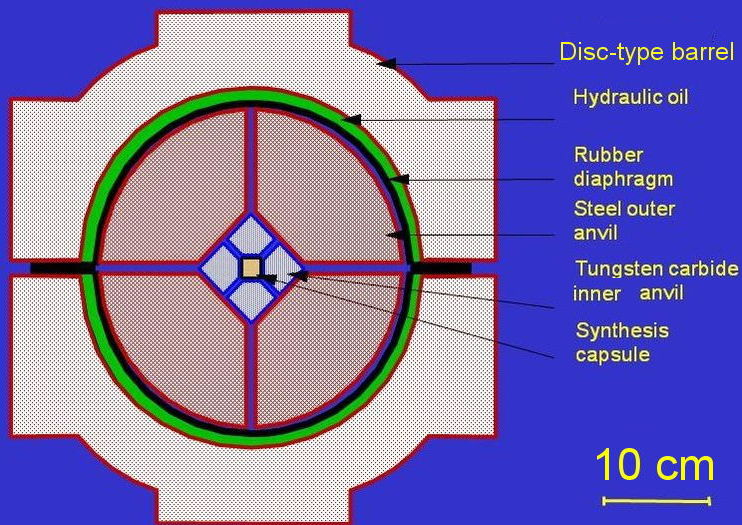 schematics of the BARS setup used to grow synthetic diamond